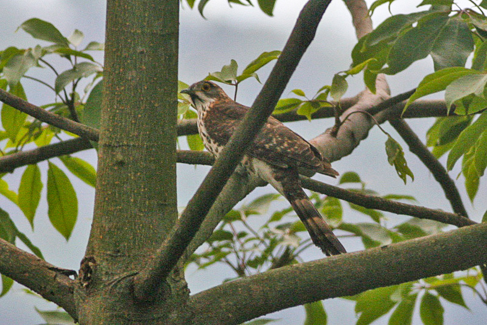 Large Hawk-Cuckoo (Hierococcyx sparverioides) at Samdrup Jongkhar to Rekhay, Bhutan